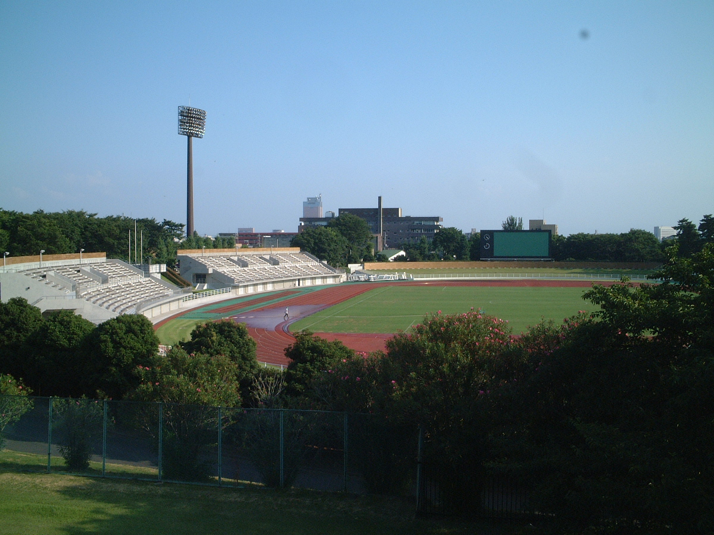 Field, track and "back side" stand of Shikishima Stadium at Maebashi city, Gunma prefecture, Japan.